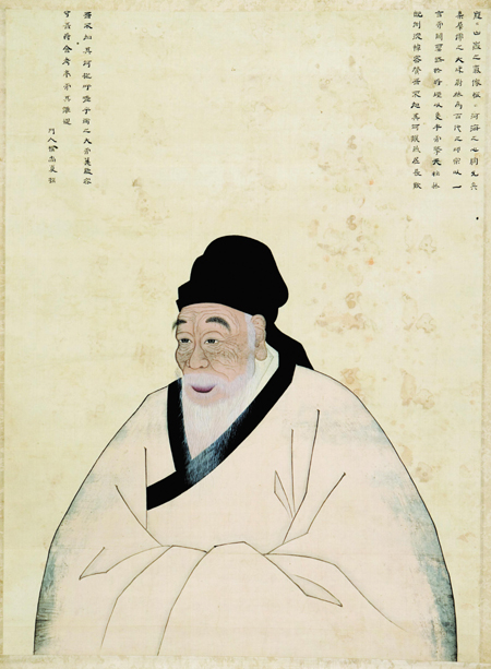 Portrait of Song, Si-Yeol, the leading Confucianist of the mid Joseon Dynasty. by Kim Chang-up